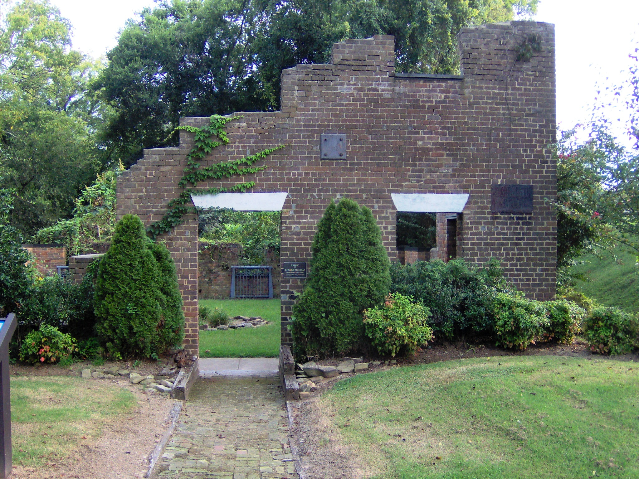 The front (north) facade of the Lenoir Cotton Mill ruins in Lenoir City, Tennessee, USA.